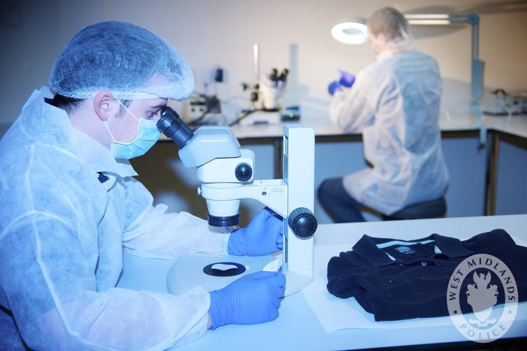 This photograph shows our specialist forensic lab that is based in Birmingham. This forensic laboratory provides a dedicated blood screening service on all major crime exhibits that are submitted to the forensic unit. These exhibits can be forensically studied in an effort to generate DNA profiles.